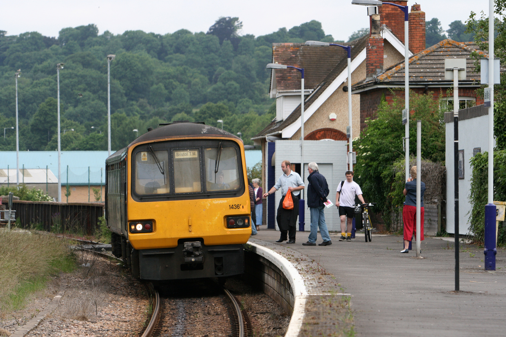 First Great Western 143611 at Sea Mills.